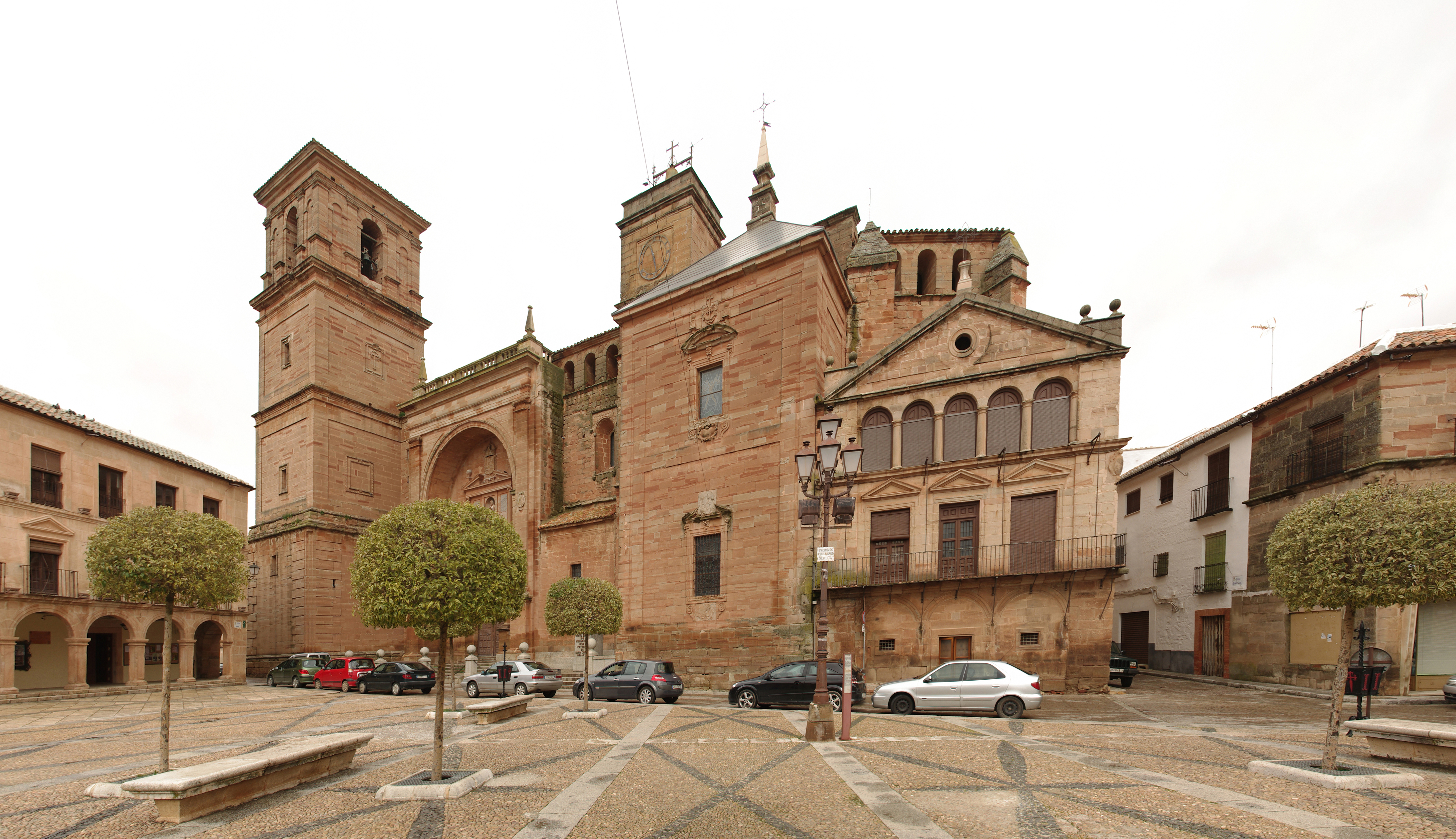 Saint Andrew's Church seen from the west side, located in the Main Square of Villanueva de los Infantes (Spain).